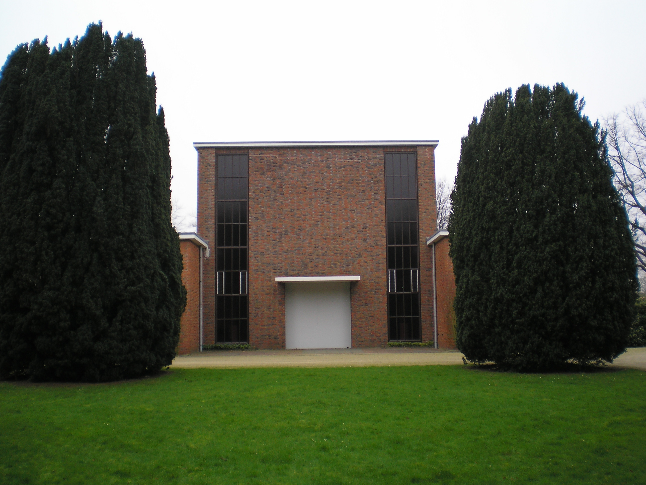 Cemetery Tolsteeg auditorium (back) in Utrecht, Netherlands